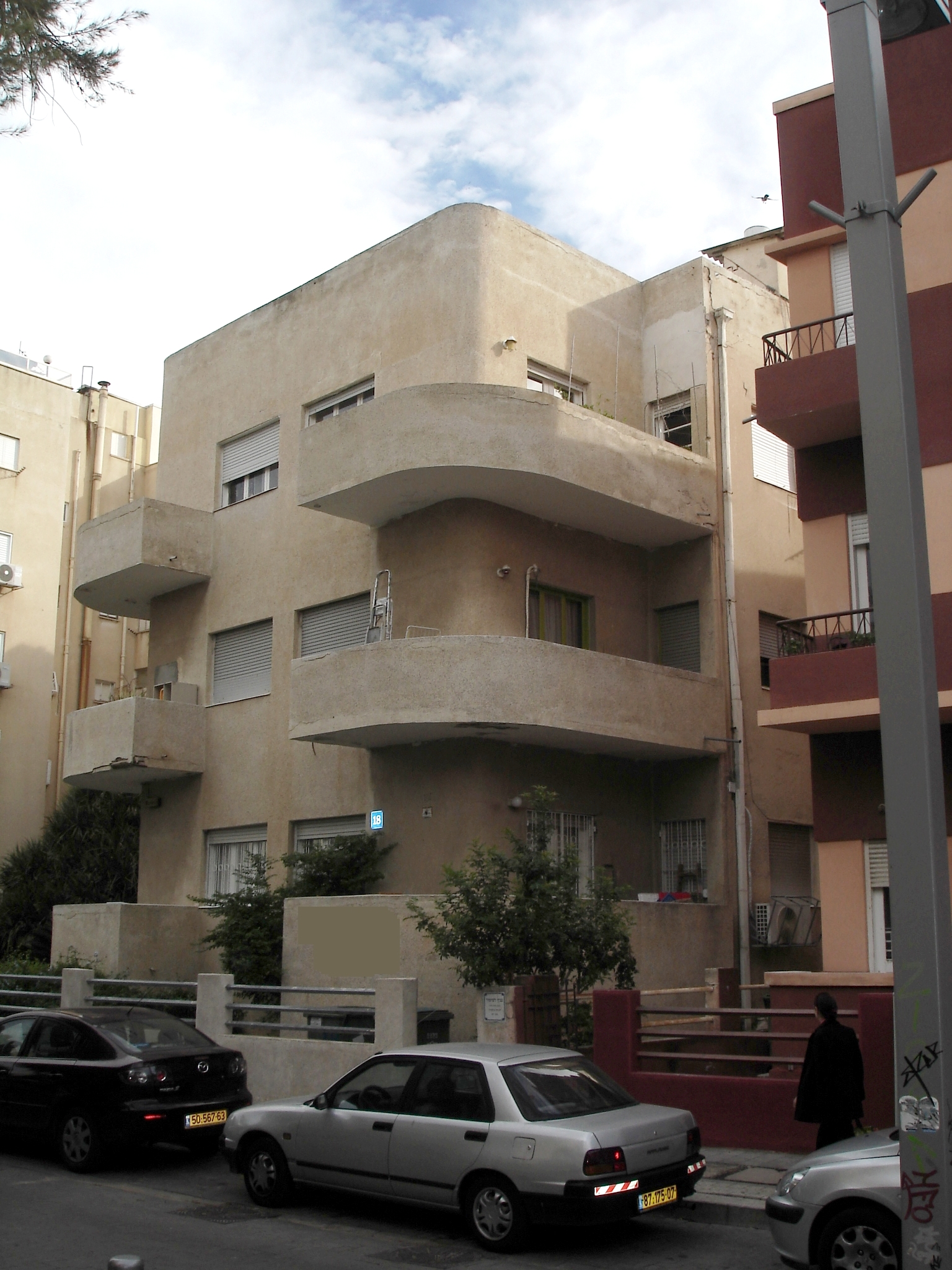 Peltzman & Wecht House, 18 Bialik St, Tel Aviv, built in 1934 by the architects Friedman Brothers